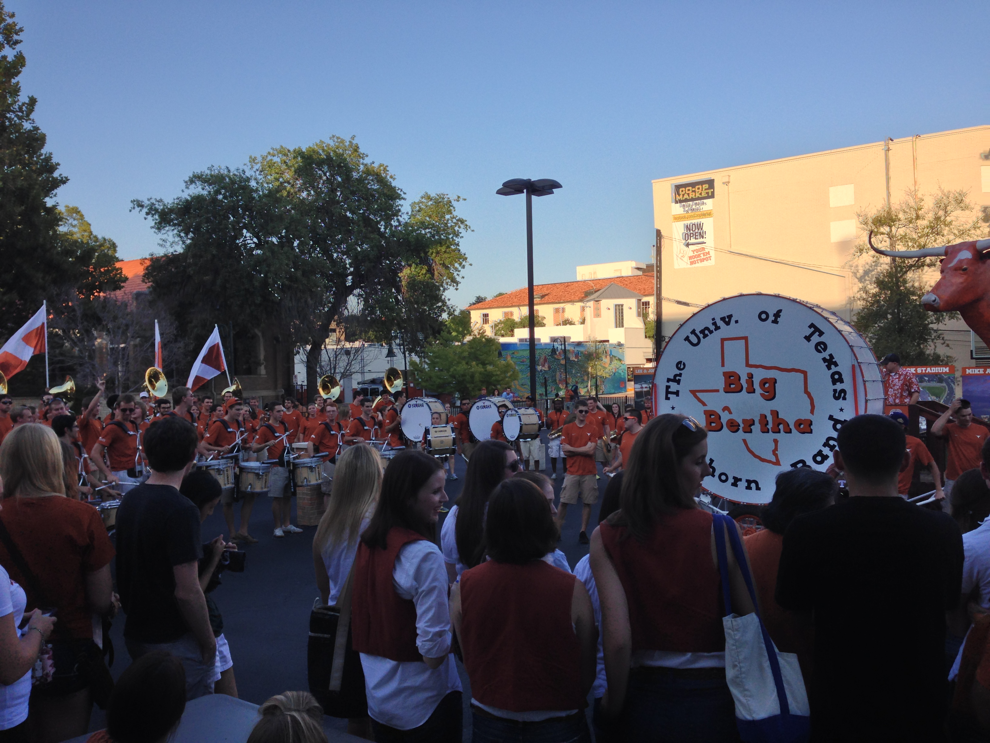 Pep rally in University Co-op before the Texas v. West Virginia football game